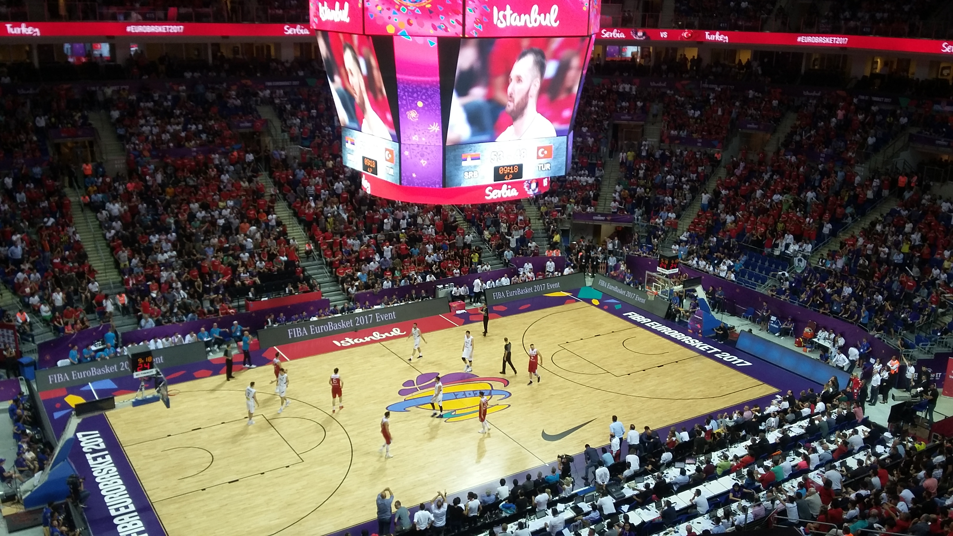 EuroBasket 2017 Serbia vs Turkey: Ülker Sports Arena, 2017-09-04.